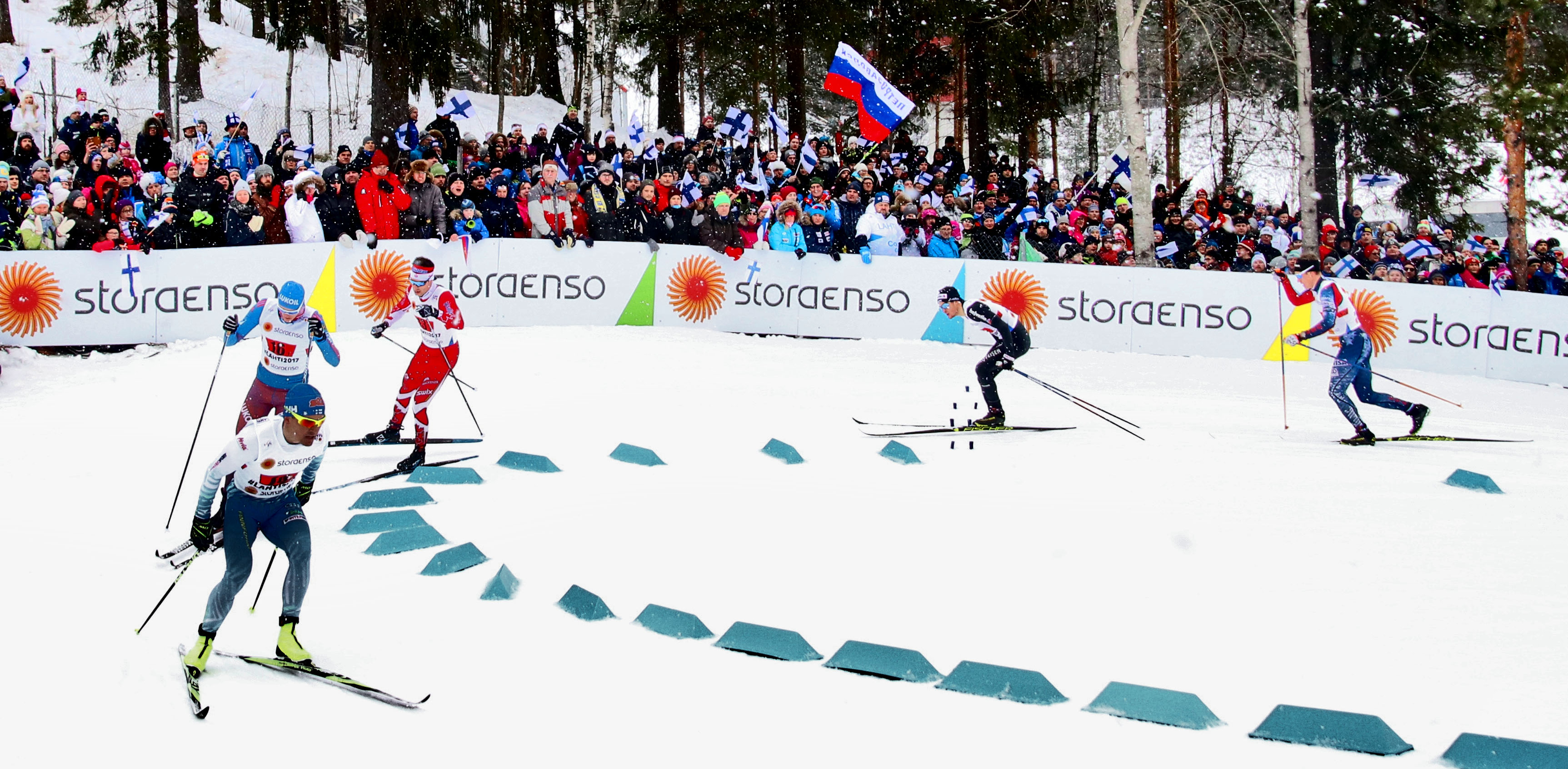 Lahti- At the cross-country world championships.